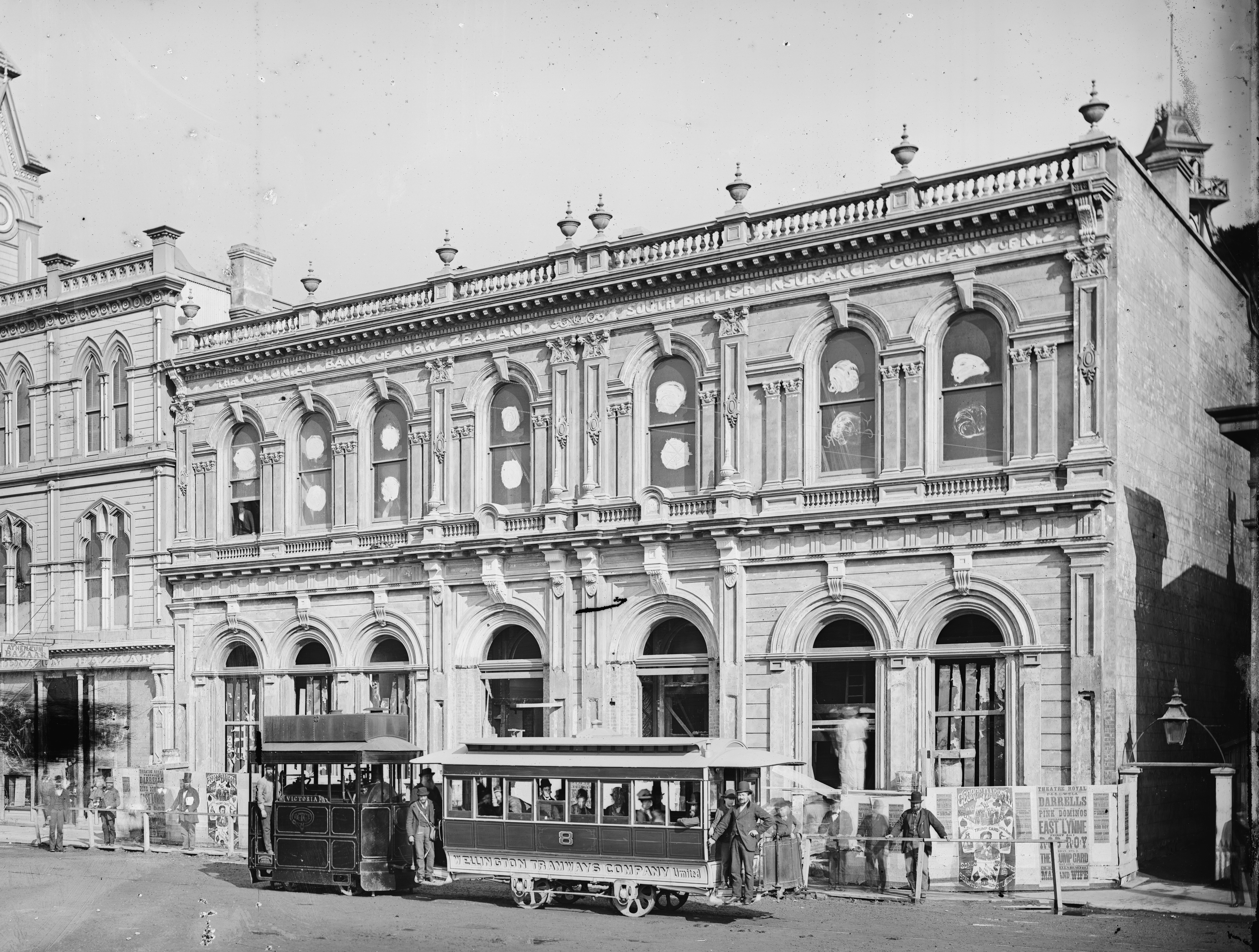 Colonial Bank of New Zealand Wellington Branch with South British Insurance. Lambton Quay from Hunter and Featherston Streets, redecorating in progress (and the tramway locomotive ‘’Victoria’’)